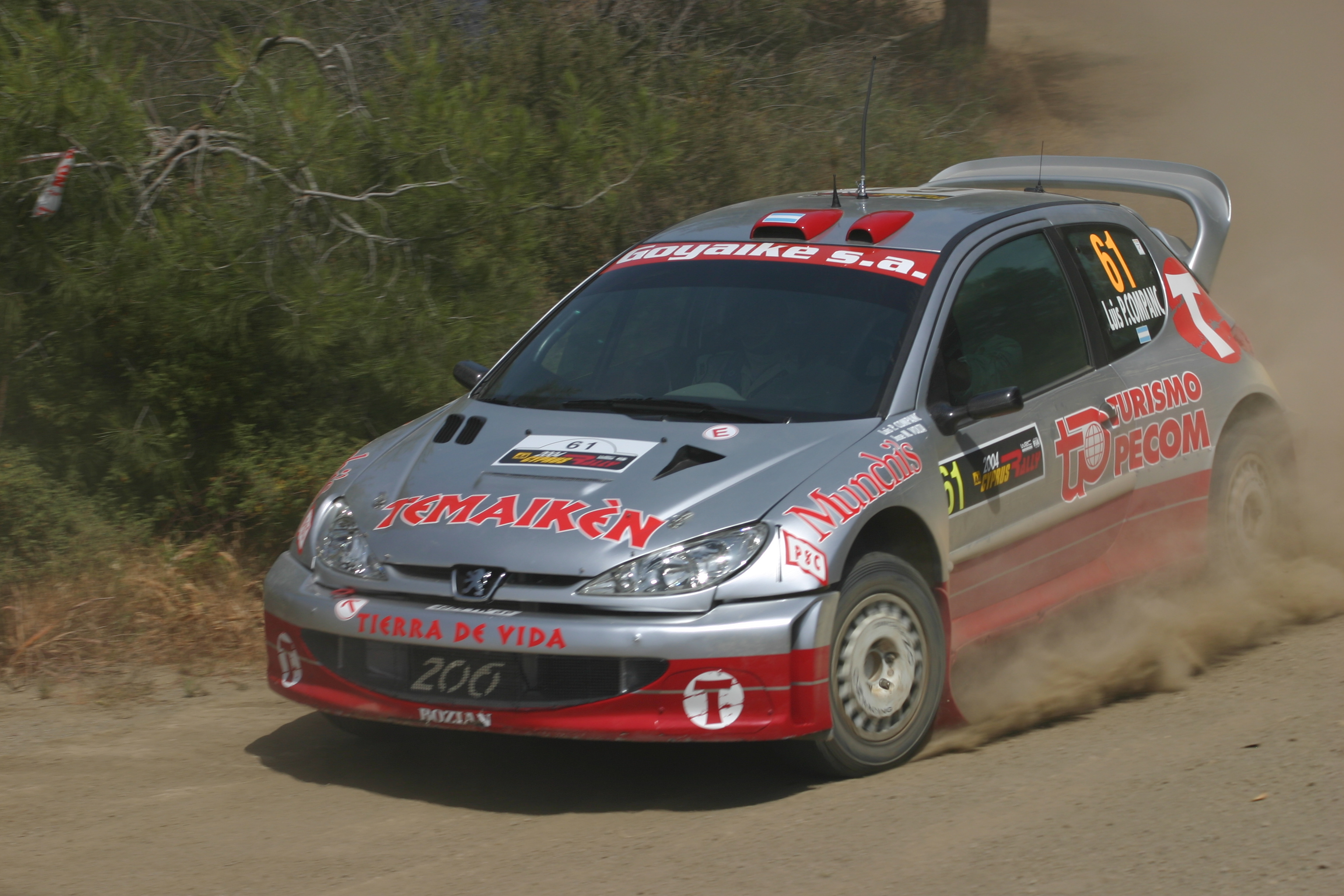 Luís Pérez Companc driving a Peugeot 206 WRC at the 2004 Cyprus Rally.